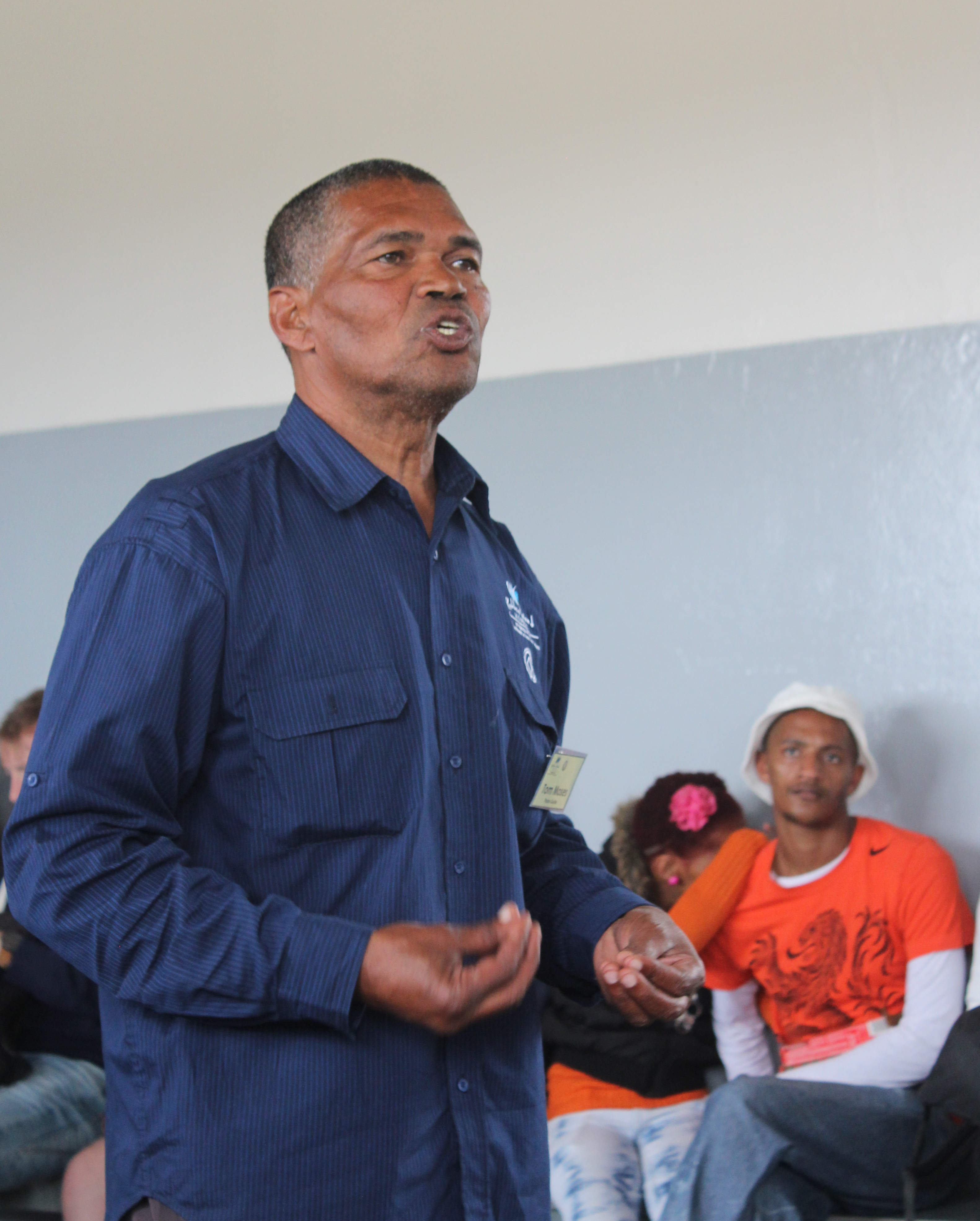 Tom Moses (prisoner 15/0014) was held as a political prisoner on Robben Island (South Africa) from 3 December 1976 to 31 May 1985 for his opposition to Apartheid.[1] He, like many other Robben Island ex-political prisoners, is now (as of 2015) a tour guide for visitors to the island.